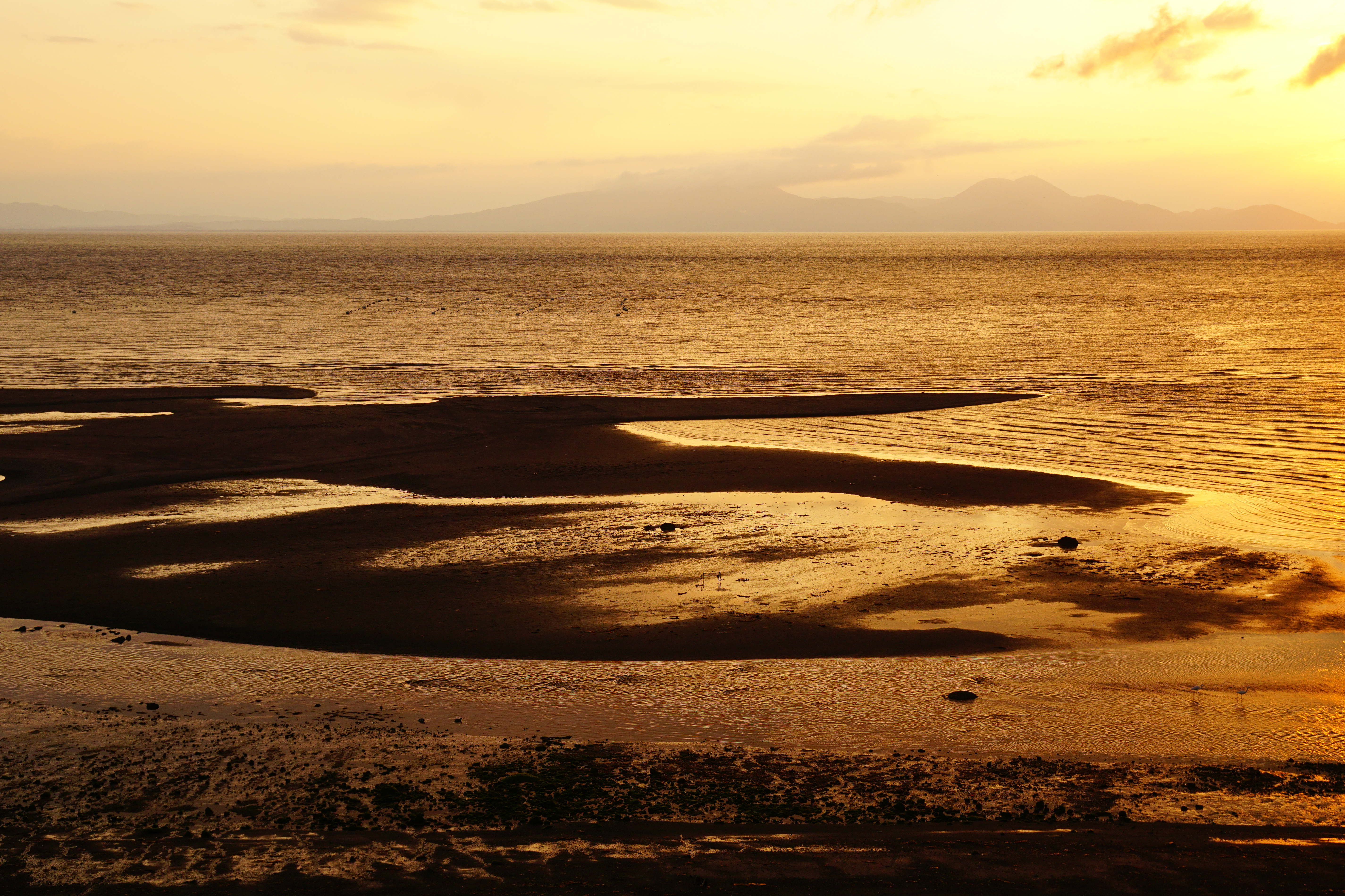 Shimabara Bay view from Hotel Nampuro in Shimabara, Nagasaki prefecture, Japan.